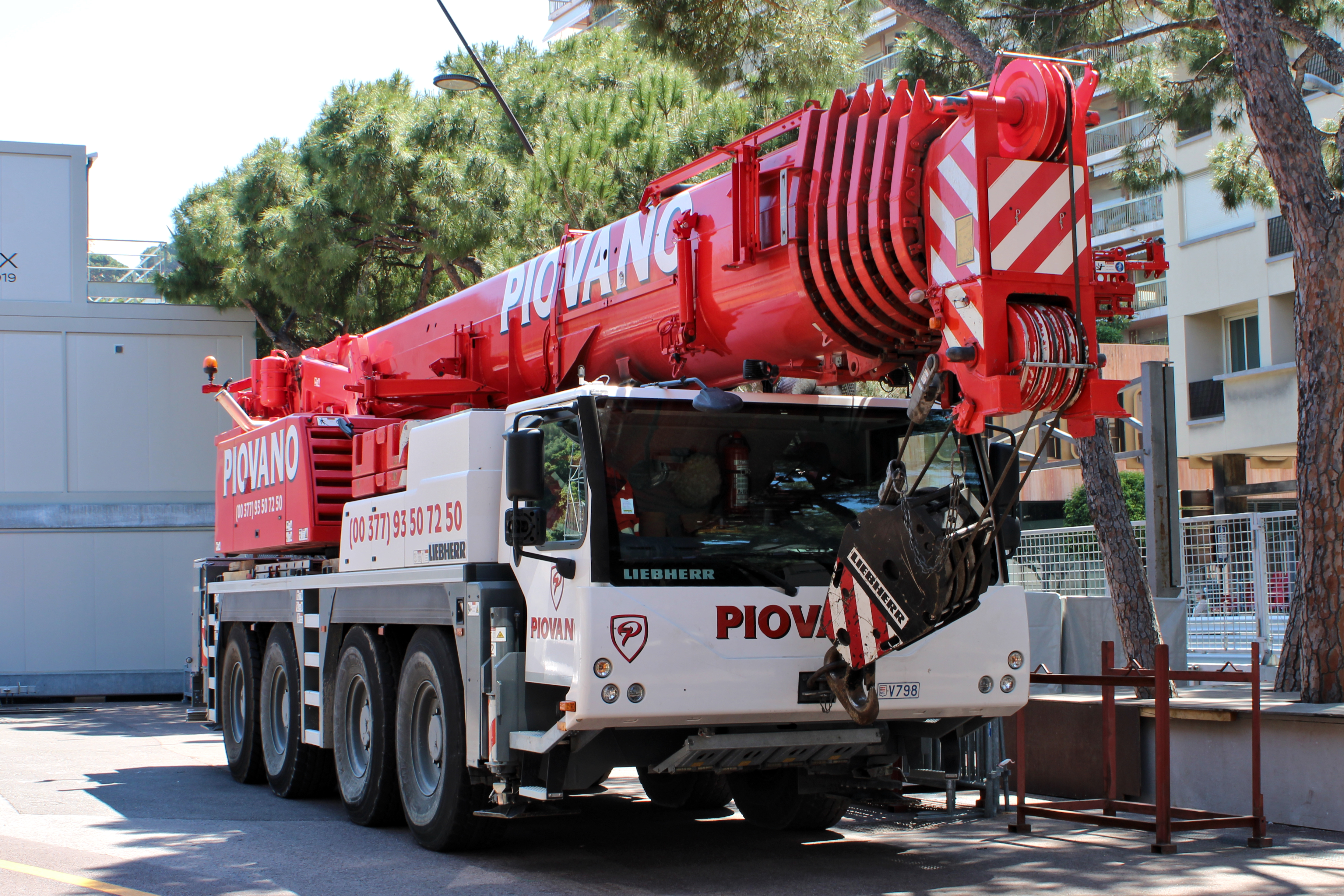 Liebherr crane truck in Monaco